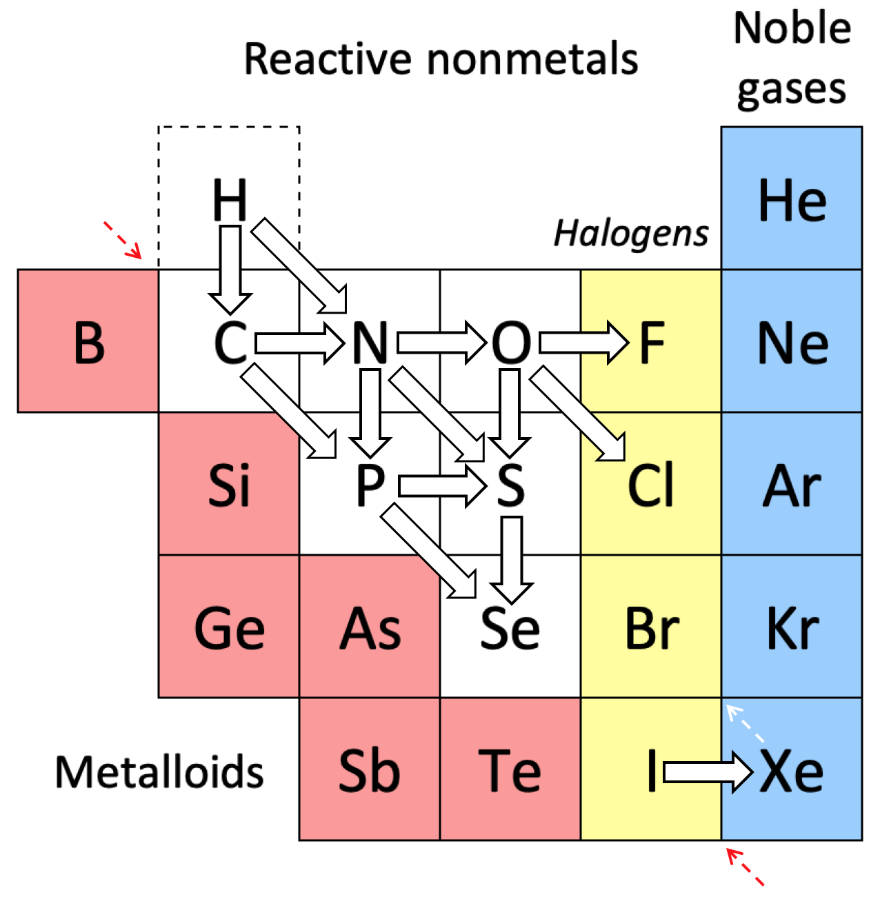 A periodic table extract showing some relationships among the nonmetals